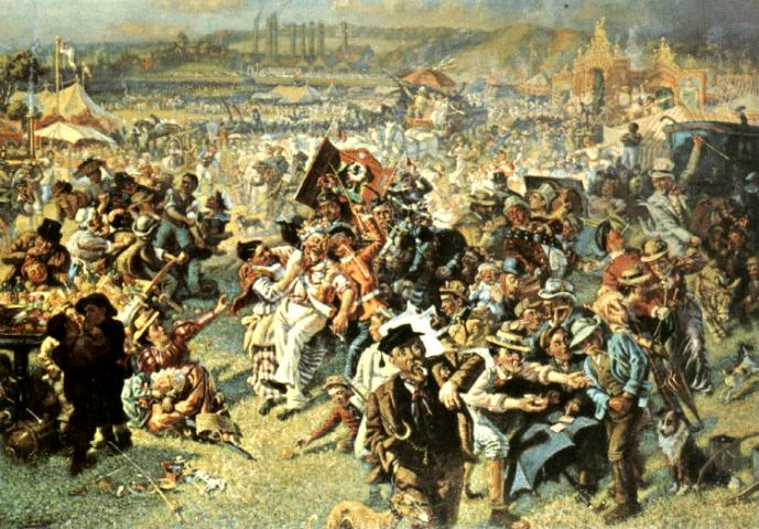 Blaydon Races Picture by William Irving at the Shipley Aret Gallery.jpg